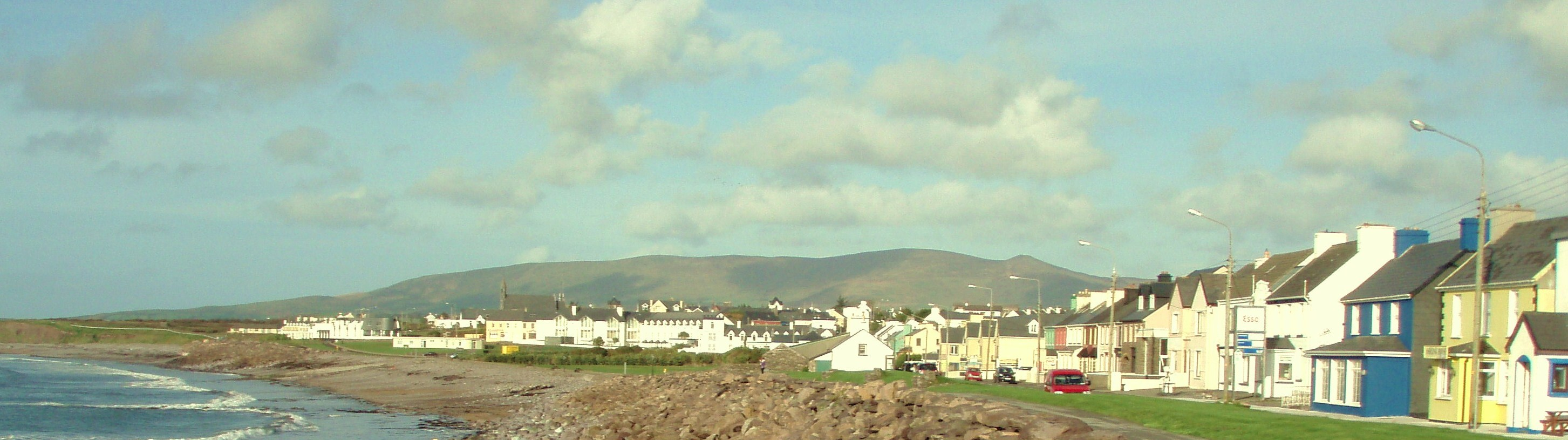 Waterville, Co Kerry, Ireland, showing The Bay View, The Lodge and Butler Arms Hotels